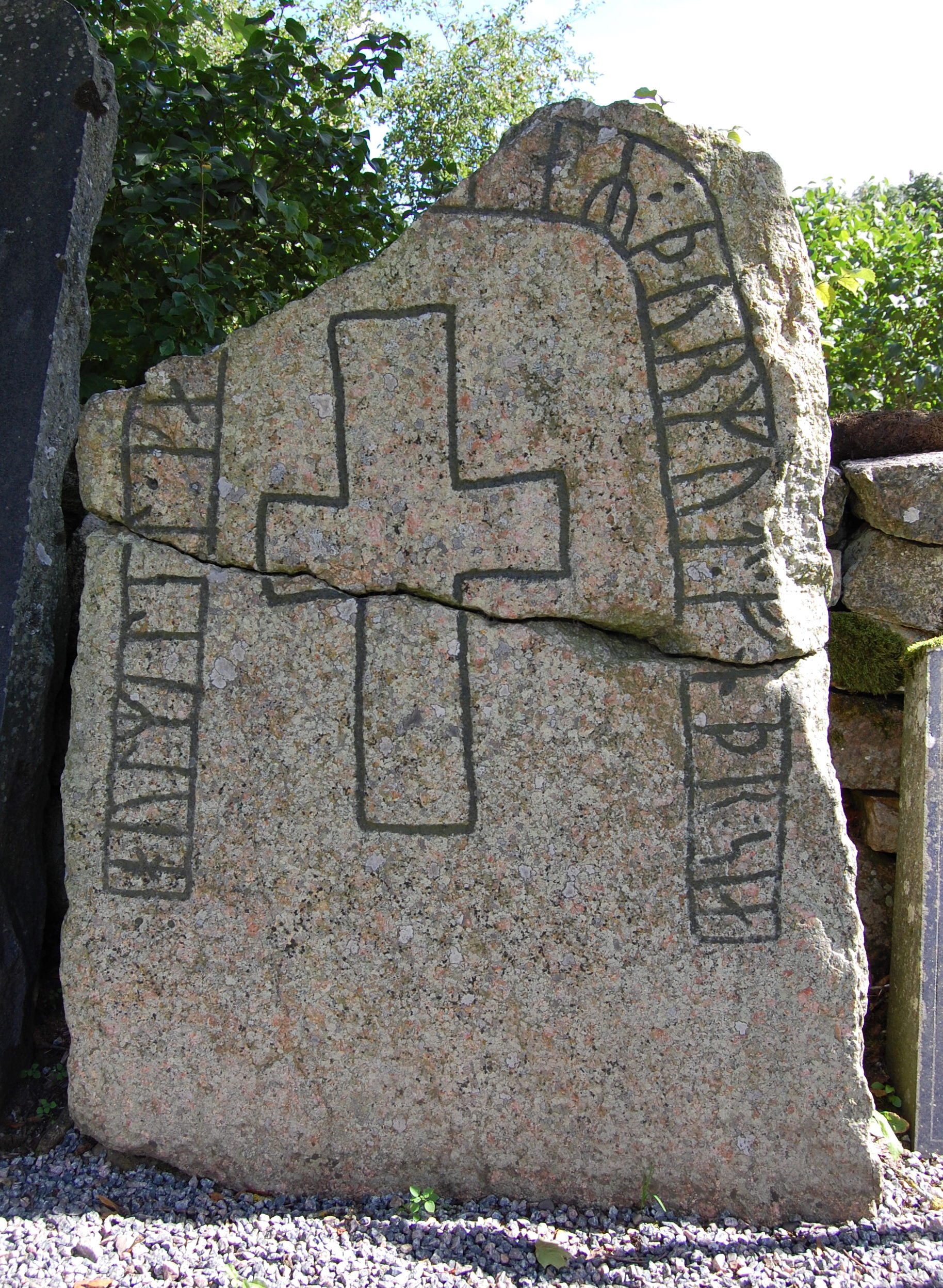 Runestone Sm 73